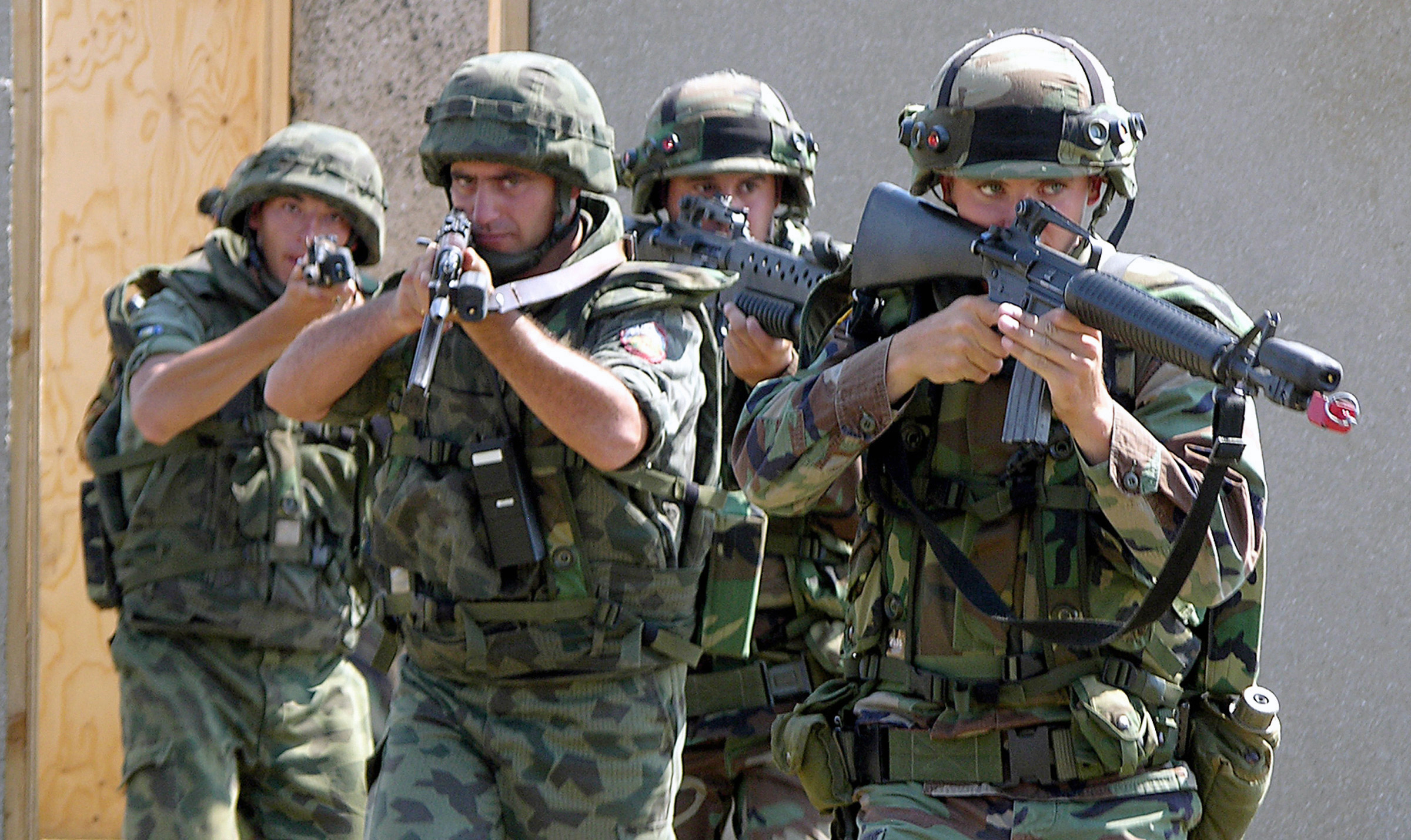 Bulgarian Army Soldiers train together on the proper way to enter and secure a residence during a Military Operations on Urban Terrain (MOUT) exercise at the Novo Selo training area in Bulgaria (BGR). The simulated attack is part of Exercise Bulwark 2004.